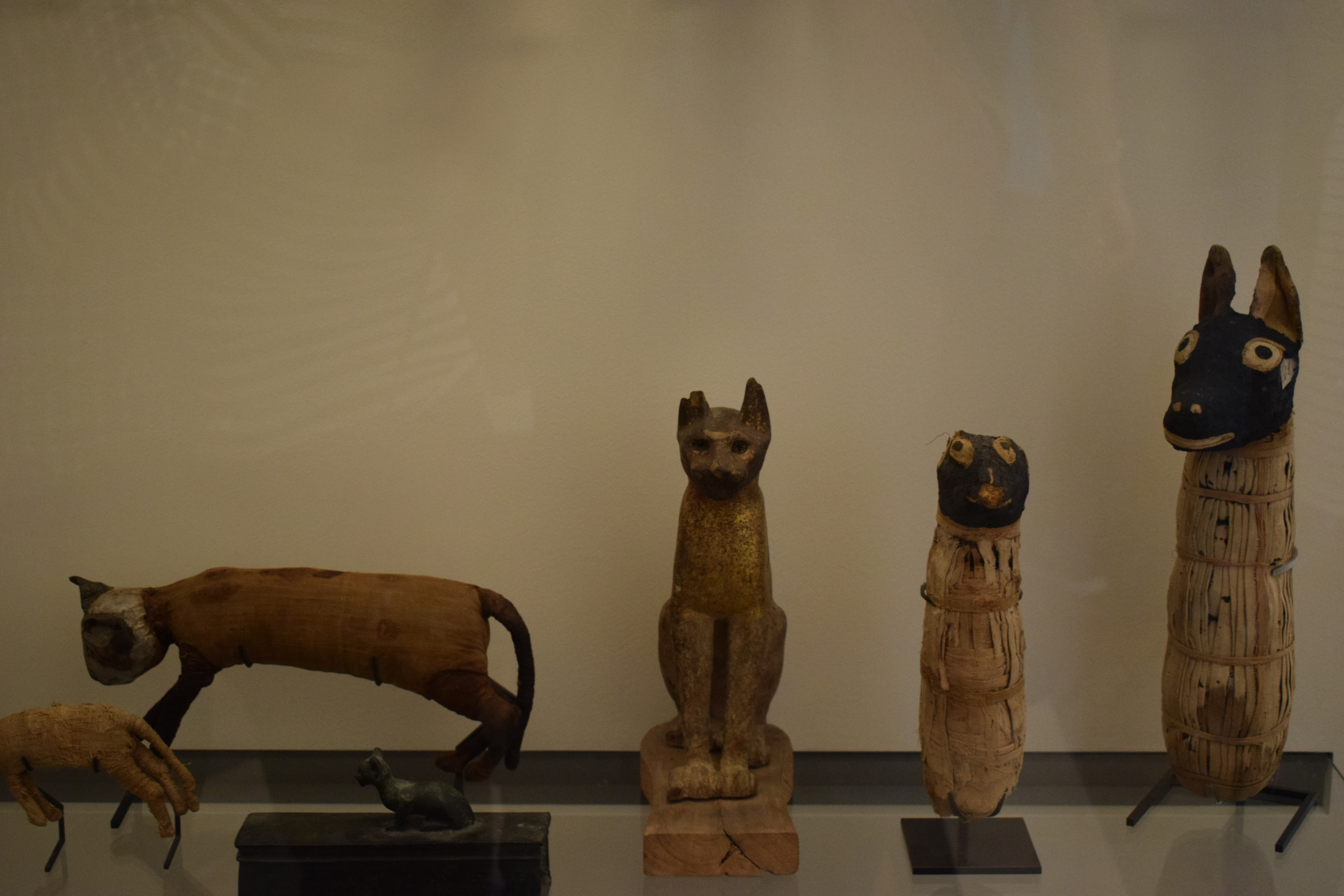 Exhibit showing cats at Lovre Museum, Paris